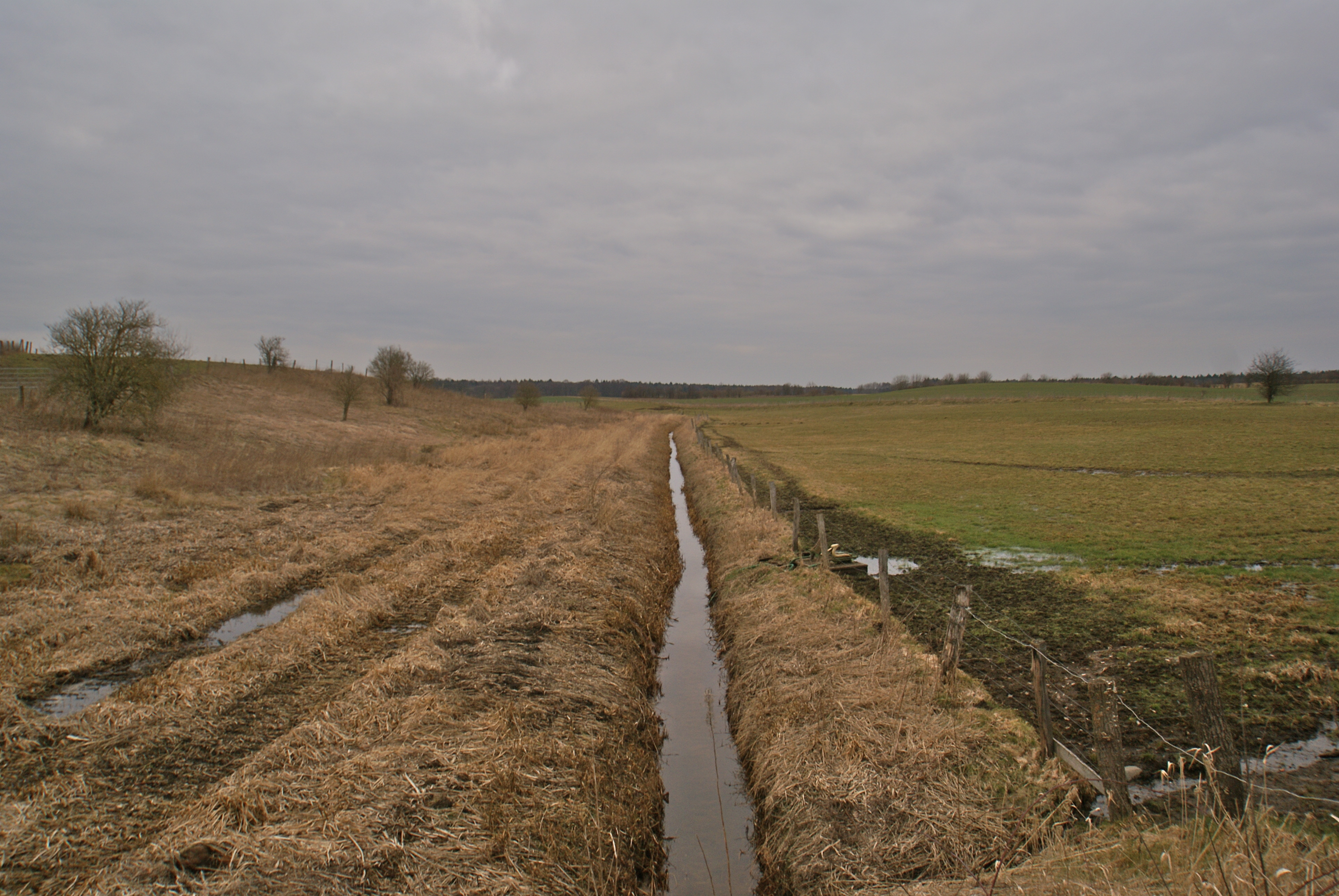 Hamburg (Wohldorf-Ohlstedt), Germany: The river Wohlsdorfer Graben